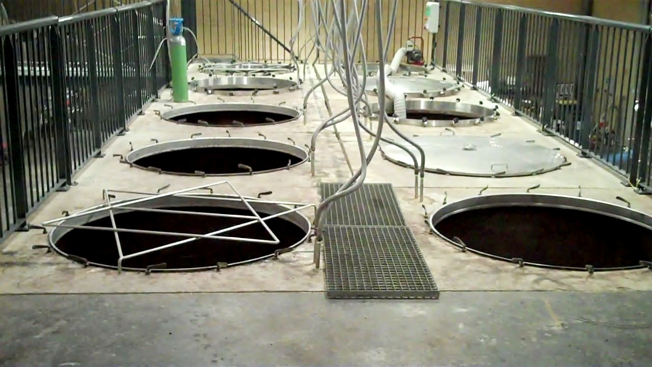 From author "The Bourgignon tops on the cement holding tanks are really wide so that you can do full punchdowns and really work the grapes once they come in. The star thingy on the bottom left is to prevent you from falling in."